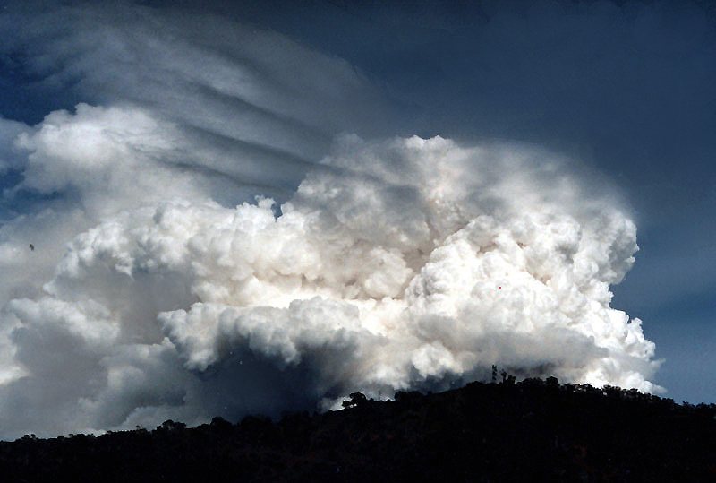 Cumulonimbus above hill.